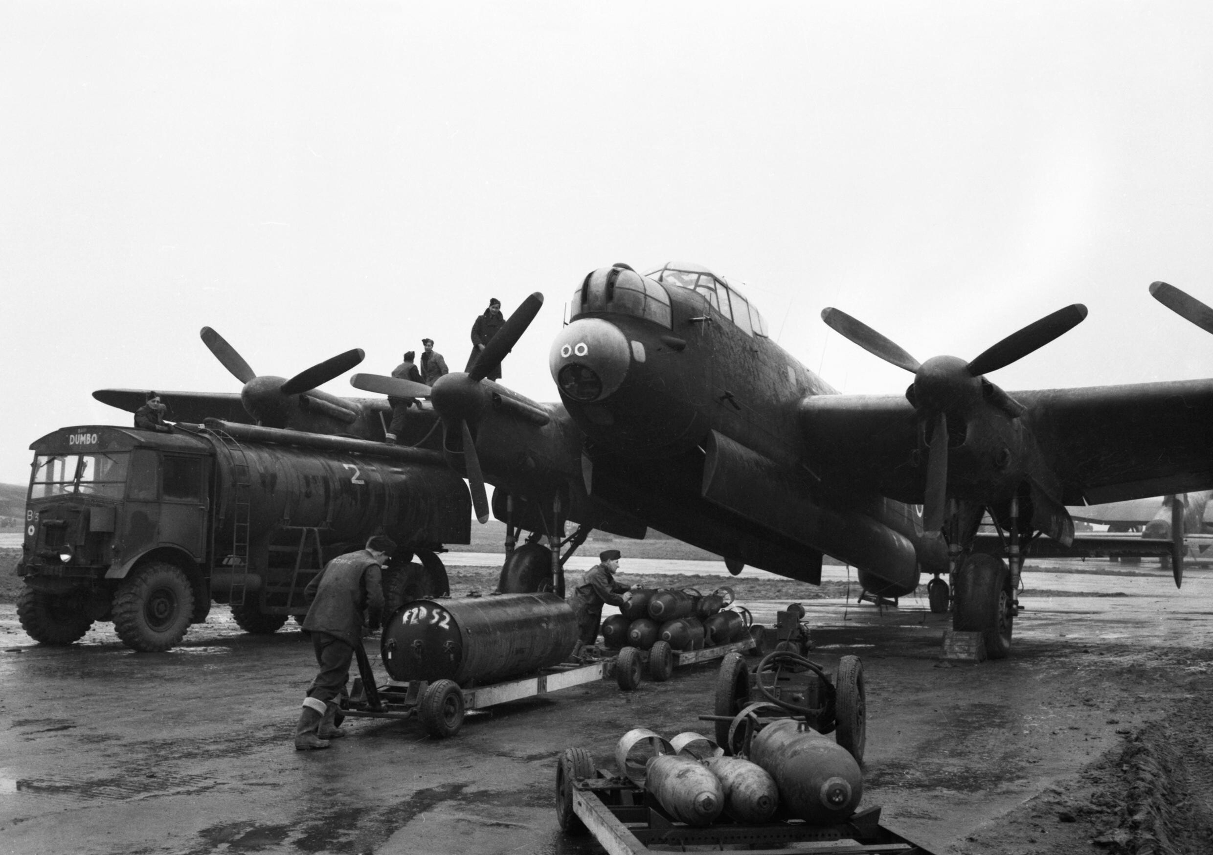 Royal Air Force Bomber Command, 1942-1945. Ground crews refuelling and bombing up an Avro Lancaster of No. 75 (New Zealand) Squadron RAF at Mepal, Cambridgeshire, for a night raid on Krefeld, Germany. The bomb load consists of a 4,000-lb HC 'cookie' and mixed 1,000-lb and 500-lb MC bombs.